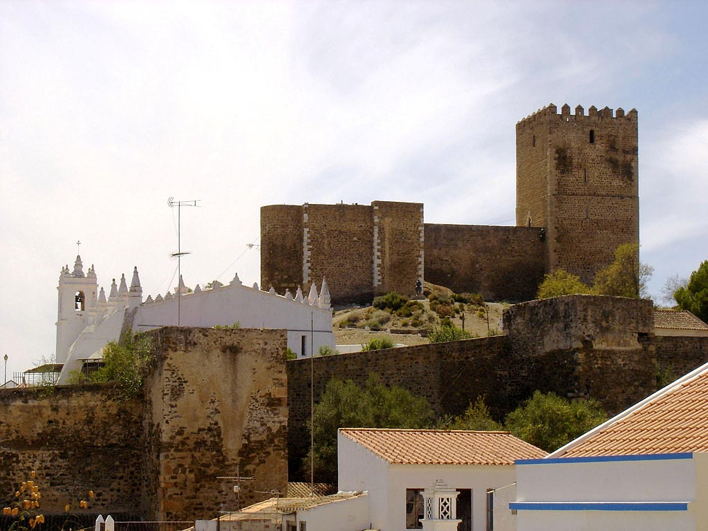 Mértola castle and main church in Portugal